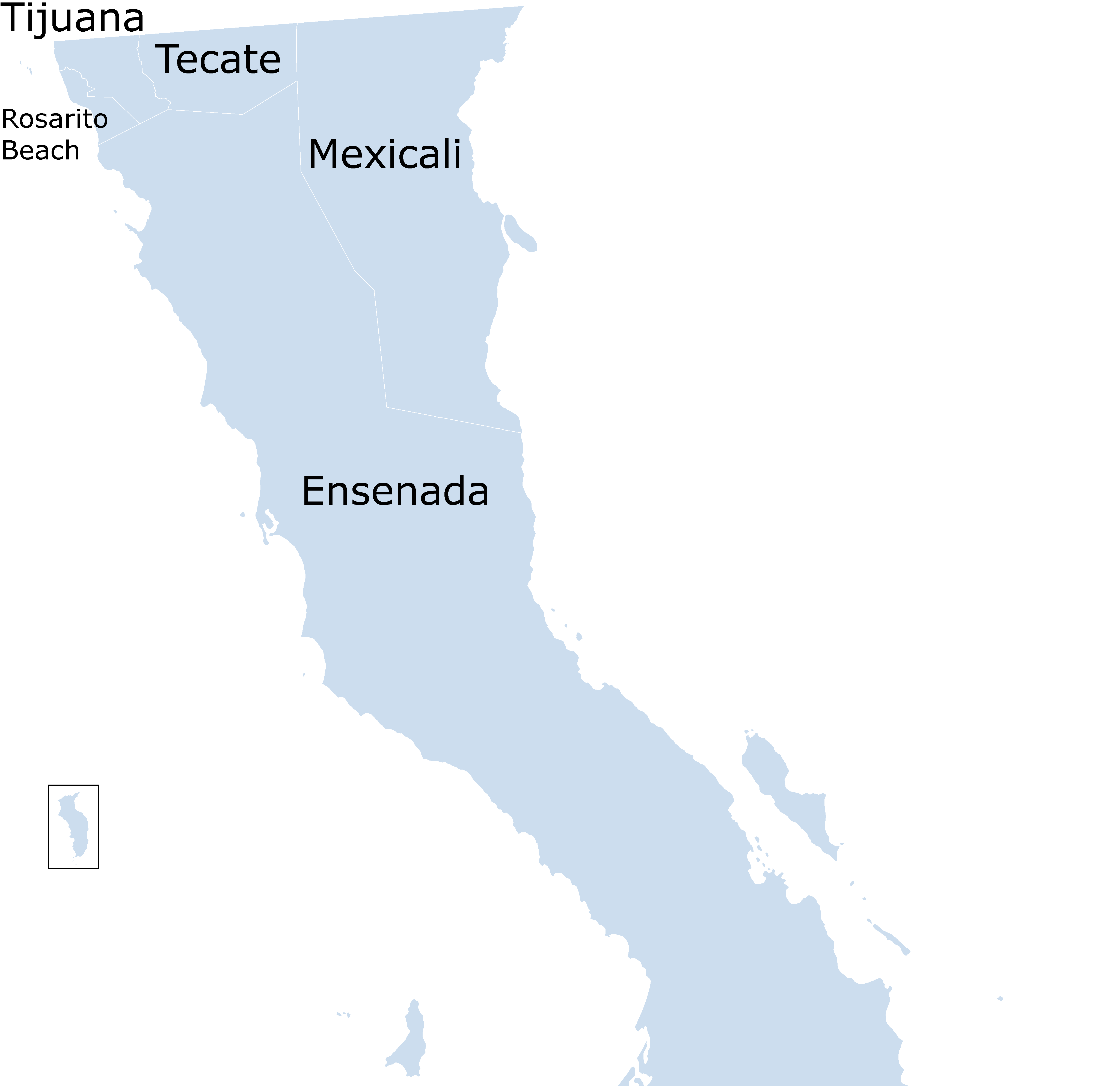 Baja California Municipalities